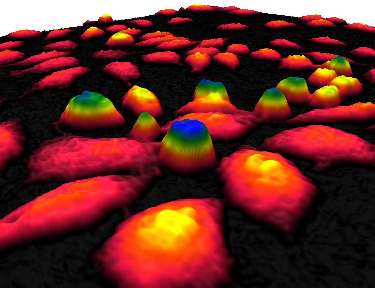 3D phase shift image of unstained, living, L929 cells in culture. The image was acquired using the HoloMonitor M3 from Phase Holographic Imaging.